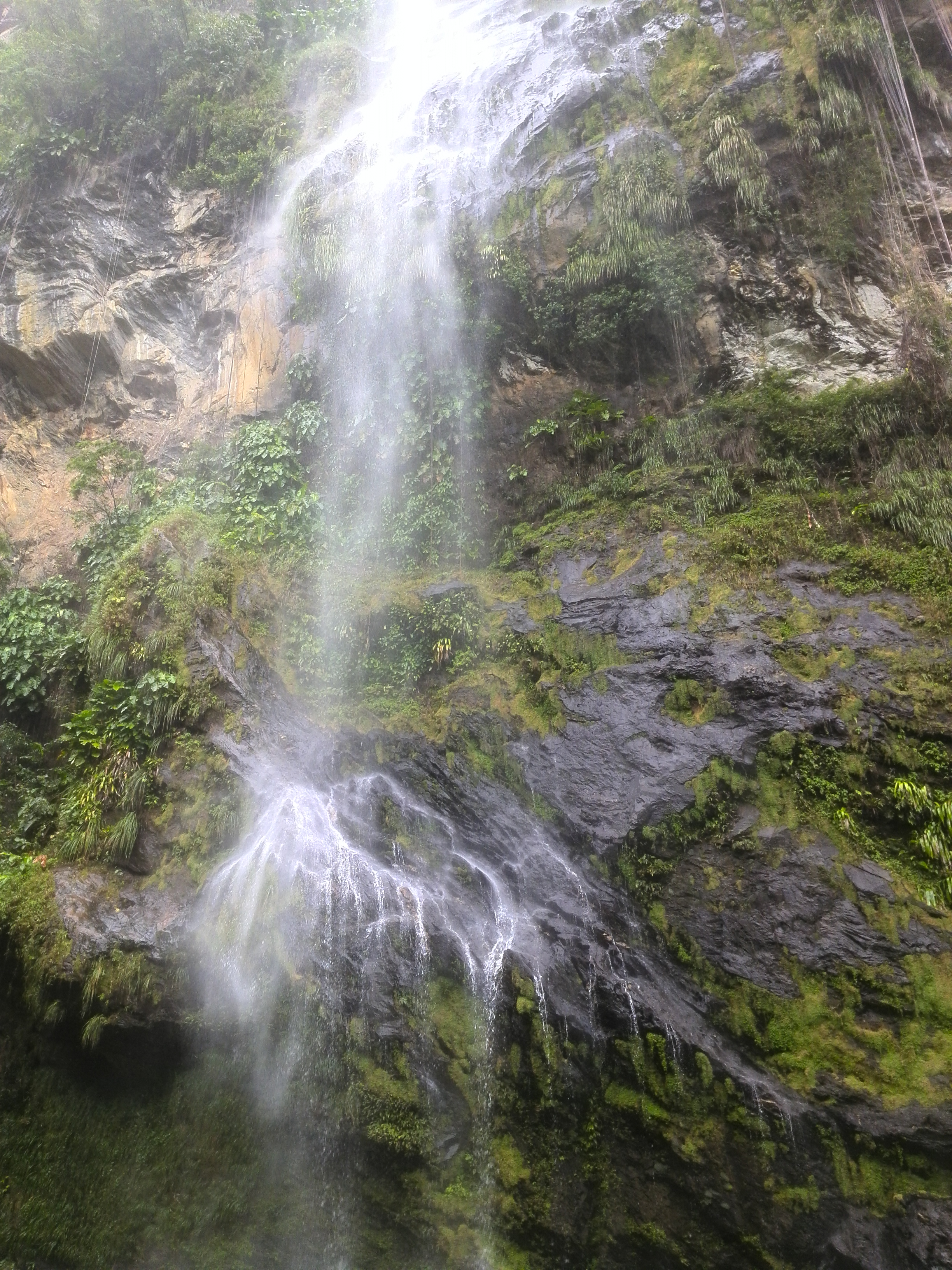 Maracas Falls, near Loango, Tunapuna-Piarco, Trinidad and Tobago.